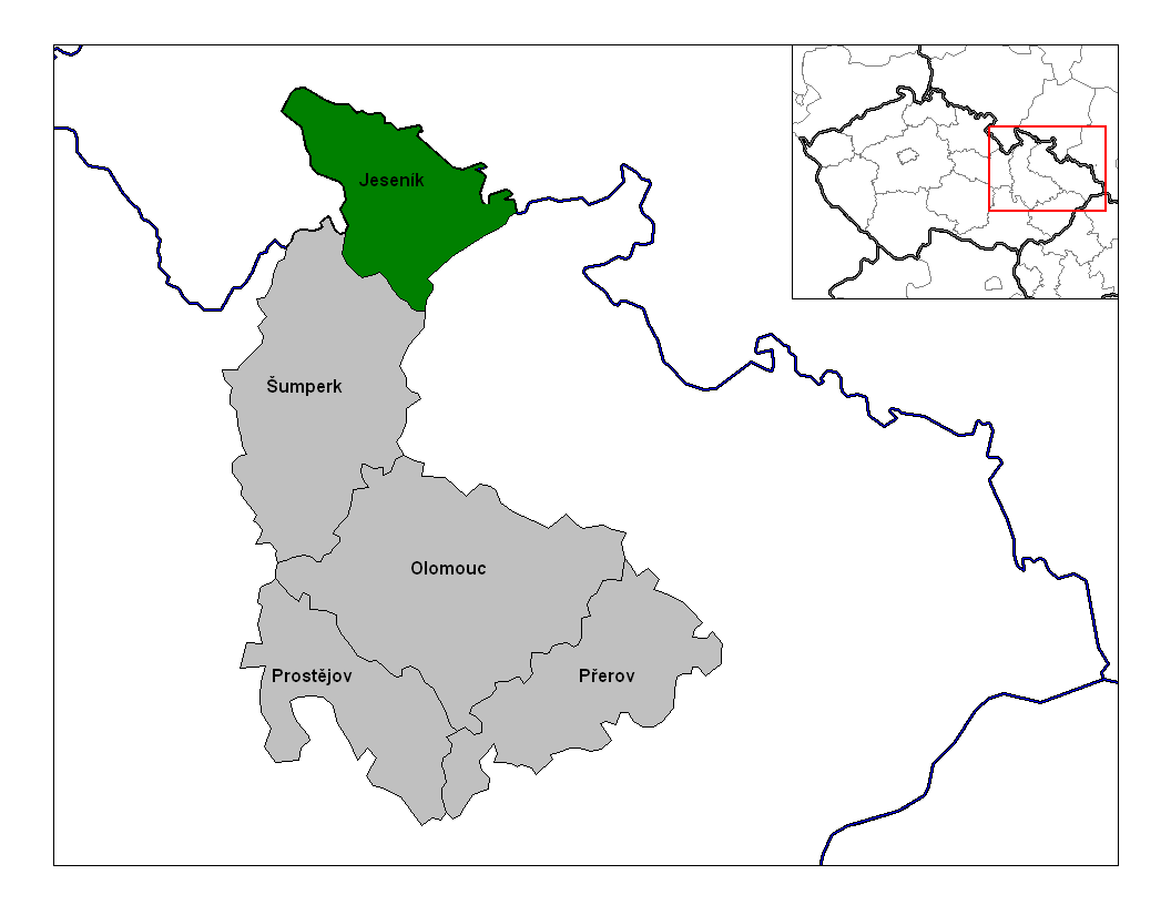 Jeseník District in Olomouc Region of the Czech Republic. This is part of Silesia.